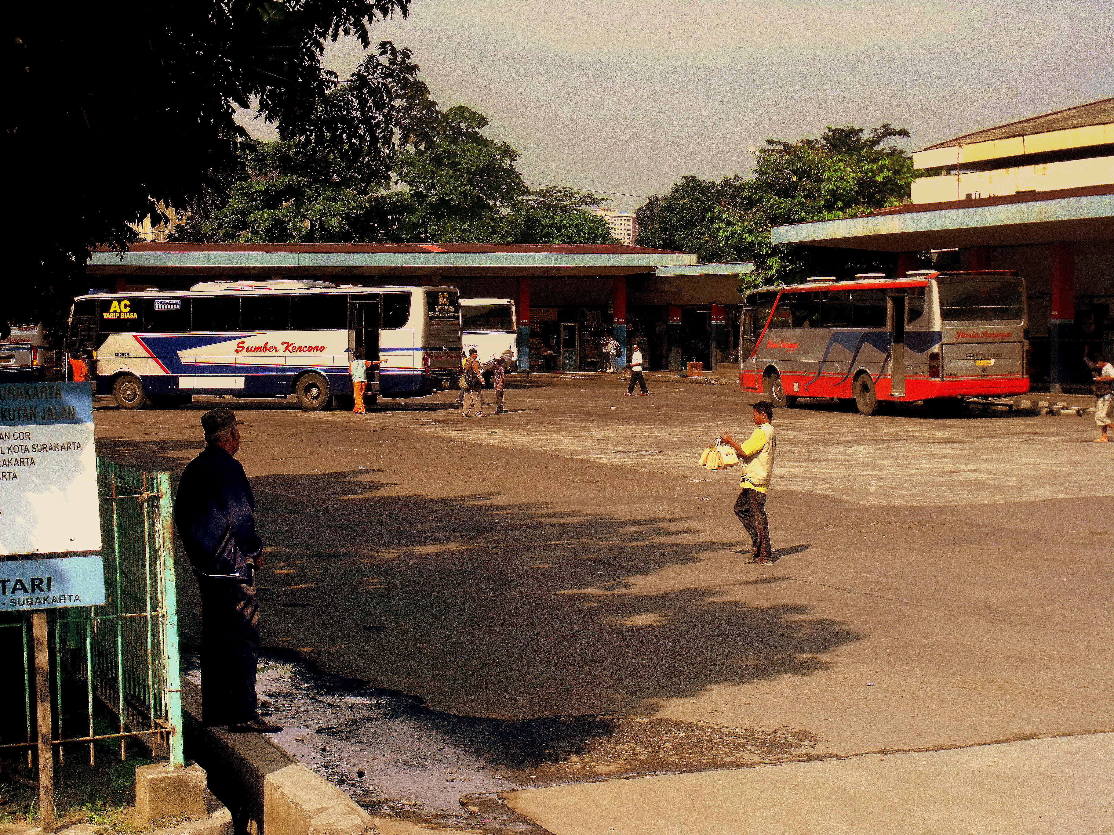 Solo city bus station central java indonesia